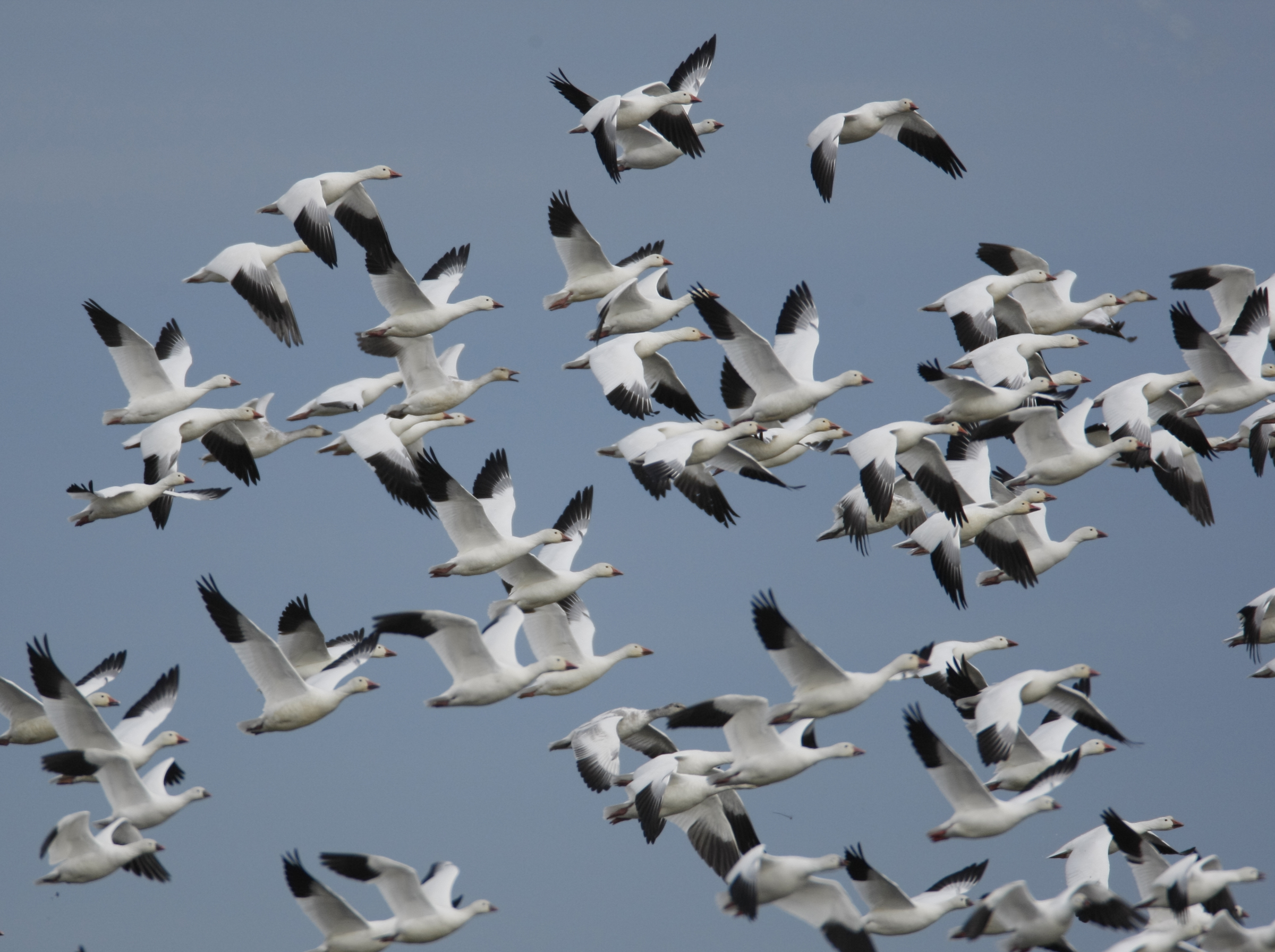 Sacramento National Wildlife Refuge, CA Photo: Steve Emmons, USFWS Snow Geese (Chen caerulescens) & Ross's Geese (Chen rossii) Auto tour, Sacramento NWR, Willows, CA